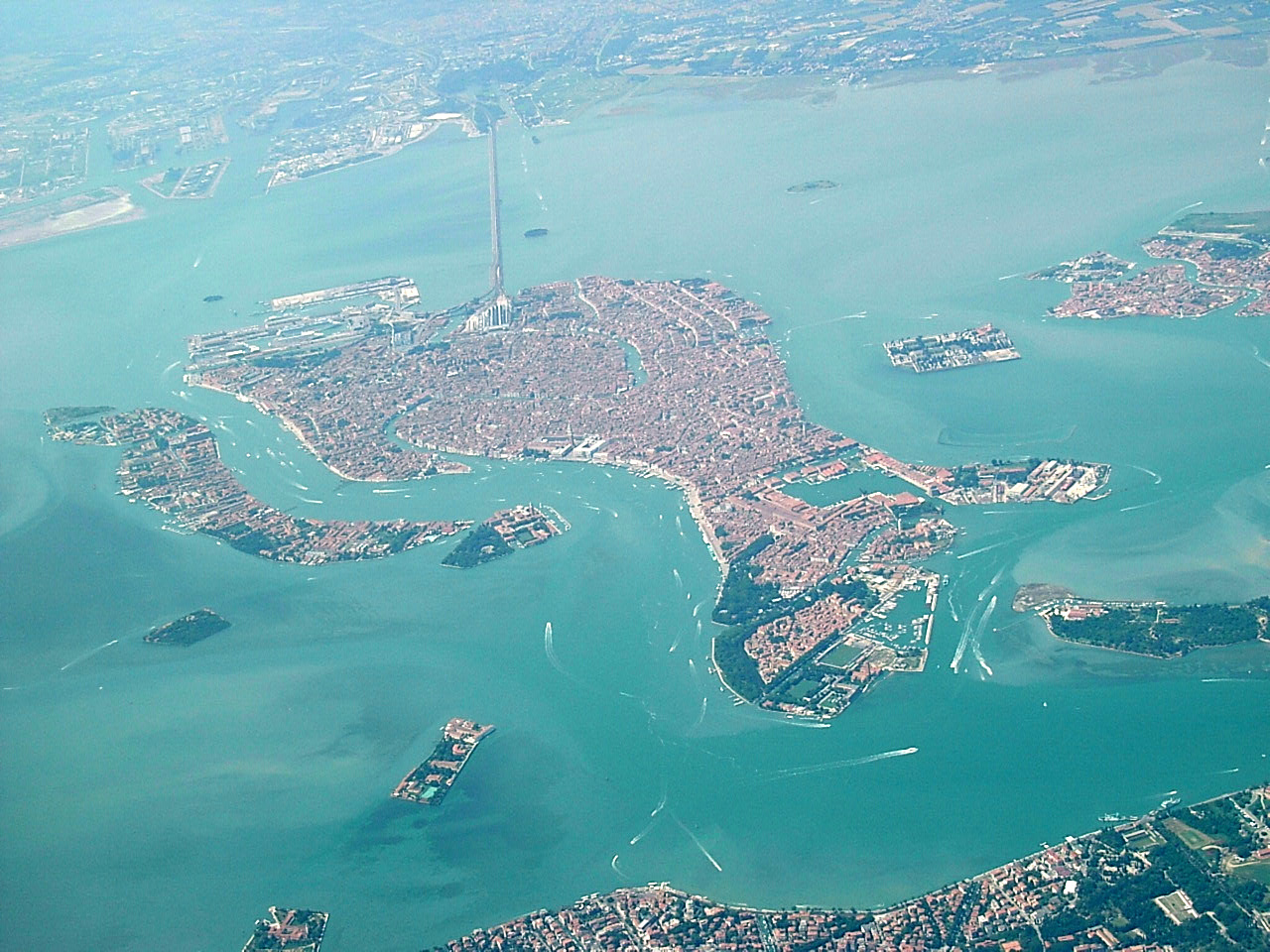 Aerial view of Venice with the bridge to the mainland.